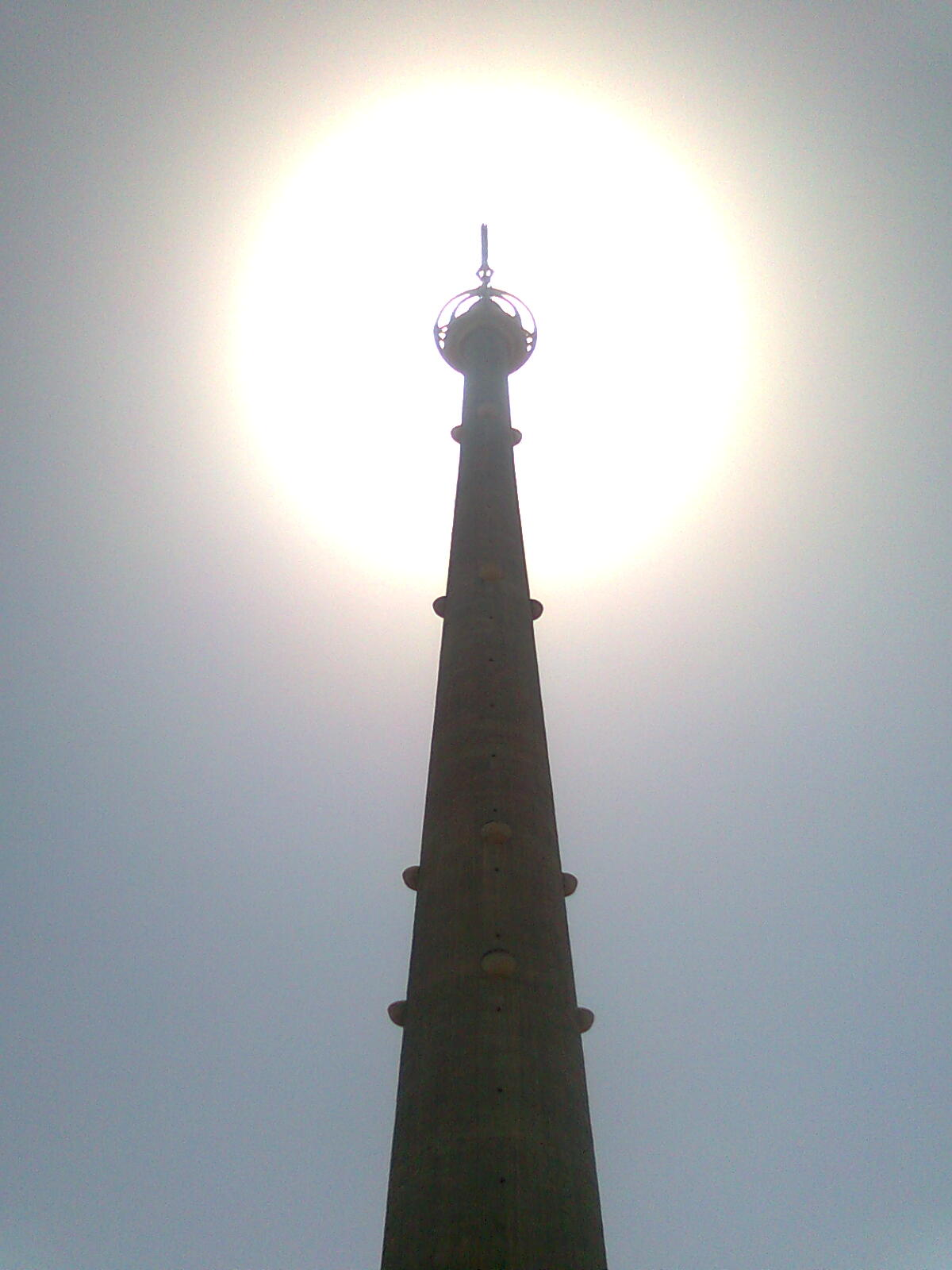 Doordarshan TV Station Samatra, Kutch, Gujarat